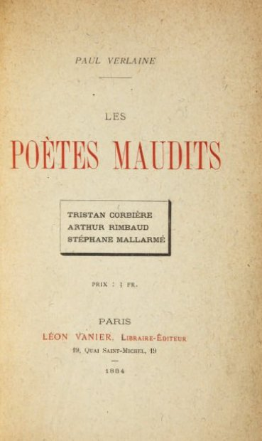 Internal front page of the first edition, illustrated with three Thomas Blanchet's engravings.